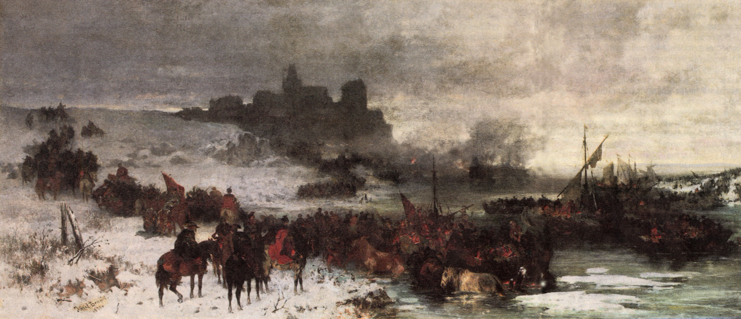 Stefan Czarniecki of the Polish-Lithuanian Commonwealth during the Battle of Kolding (1658)